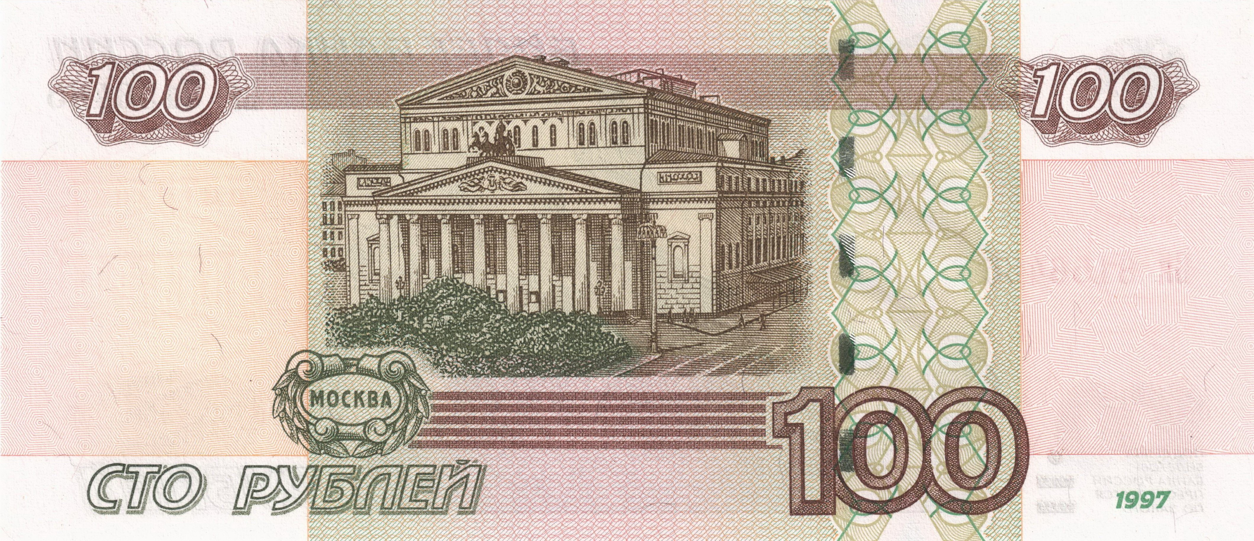 100 Russian Rubles, modified of 2004